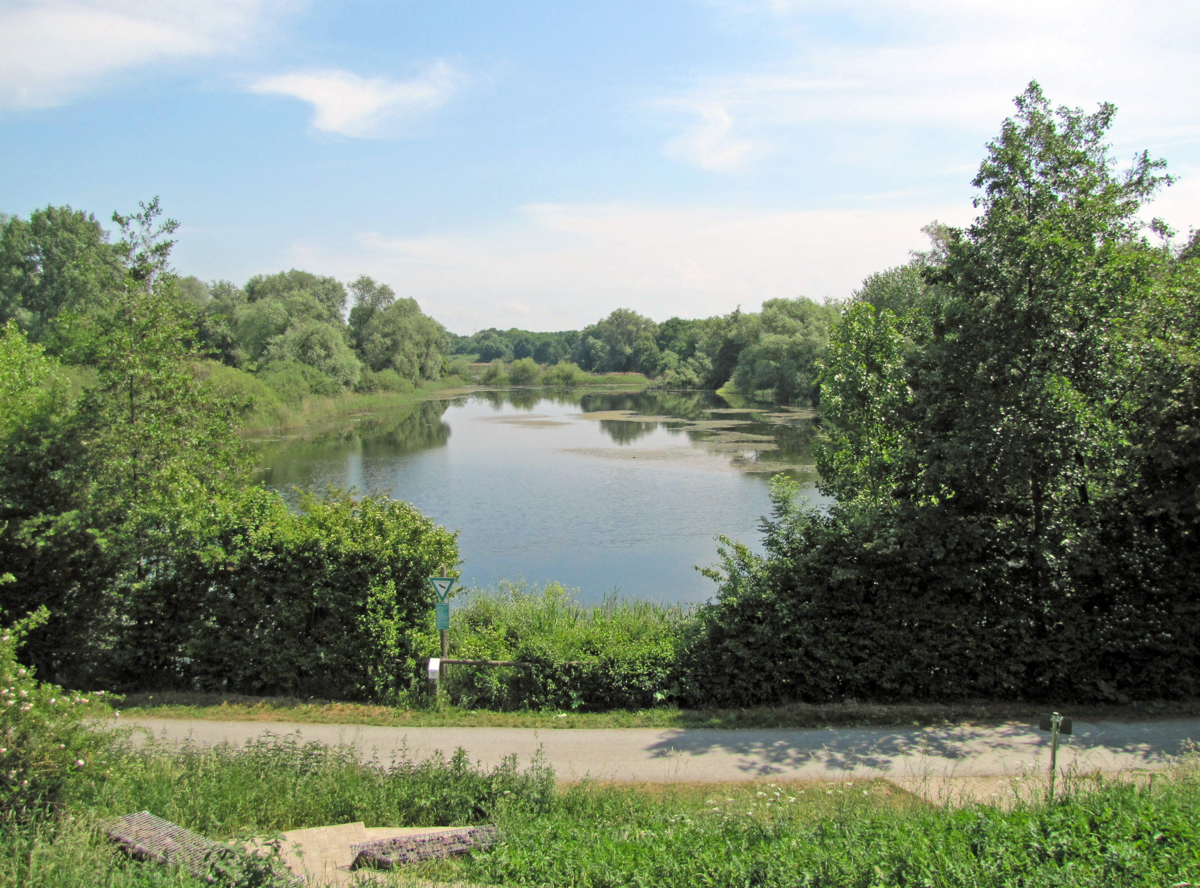 "Enkheimer Ried", a bayou of river "Main" at Frankfurt-Bergen-Enkheim, Germany.